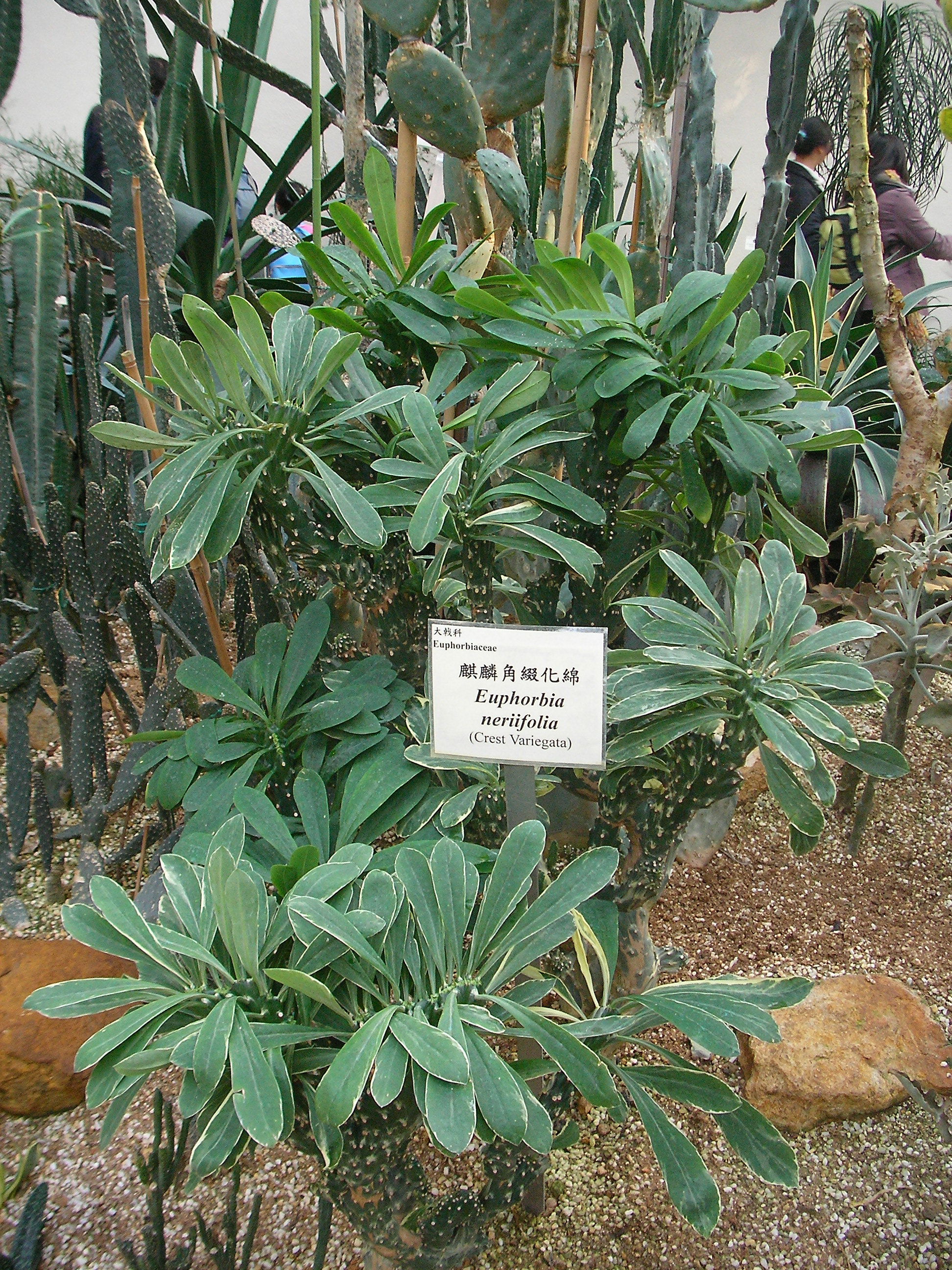 Photo of Euphorbia neriifolia at Forsgate Conservatory, Hong Kong Park